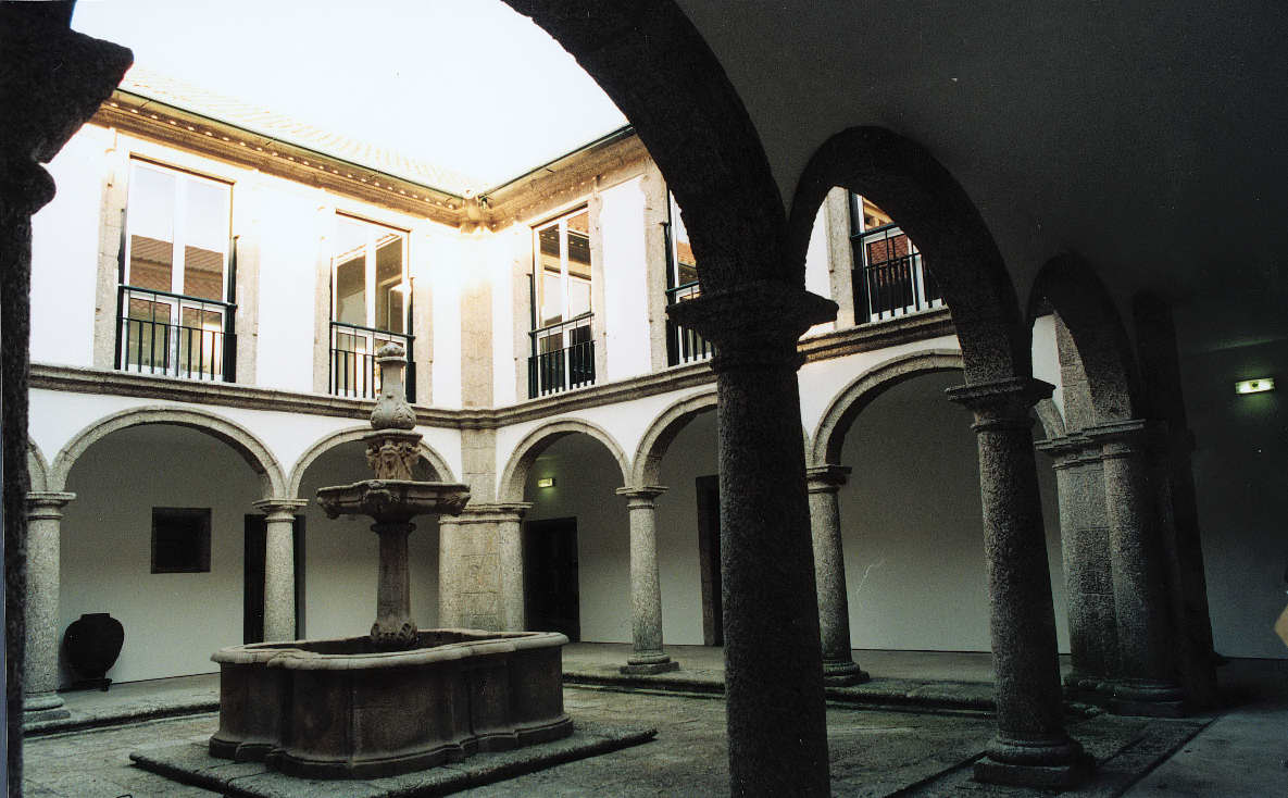 Saint Anthony Monastery, Covilhã